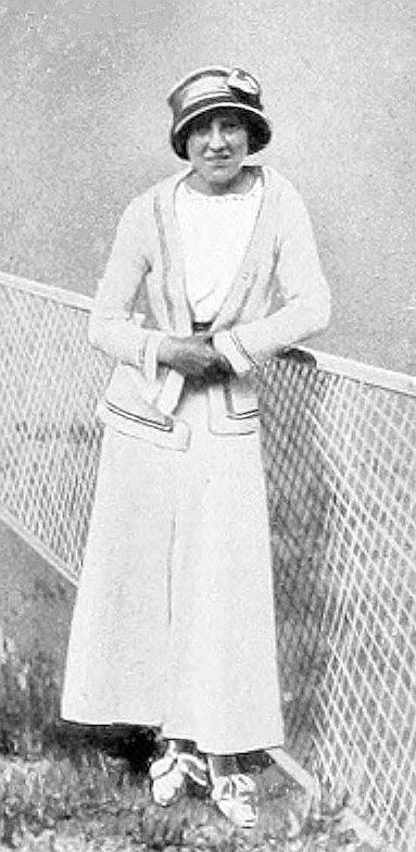 Marguerite Broquedis at the 1912 Summer Olympics